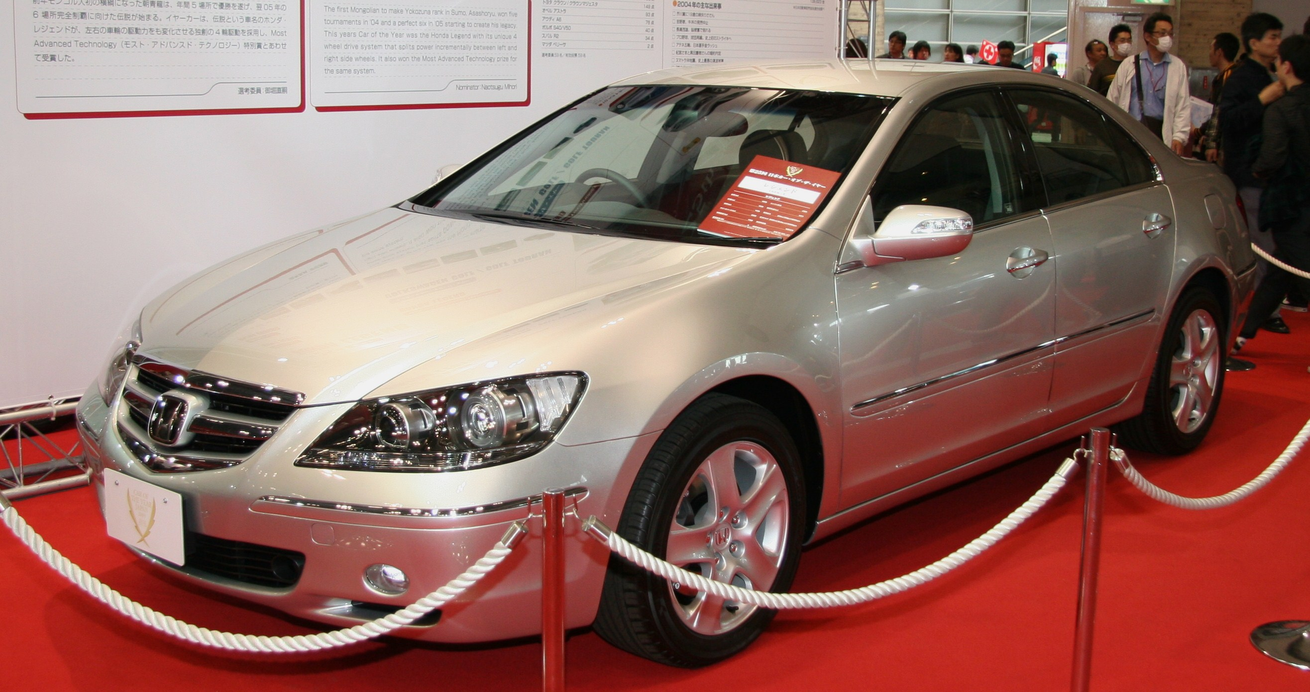 Honda Legend